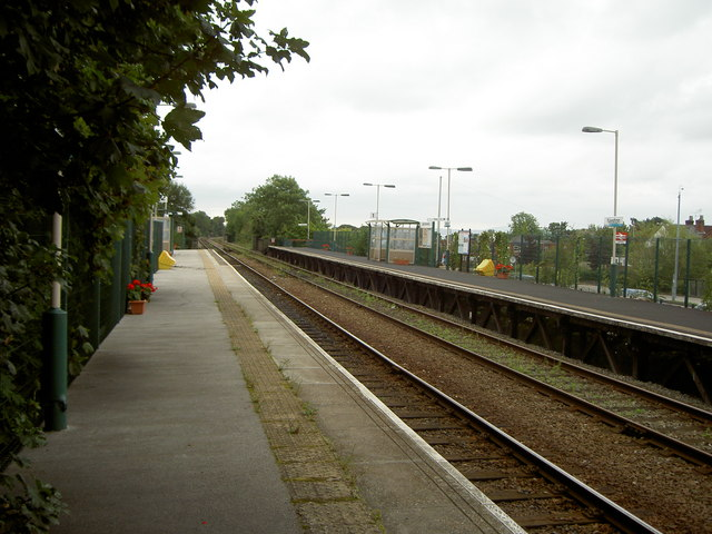 A shot of Neston railway station.